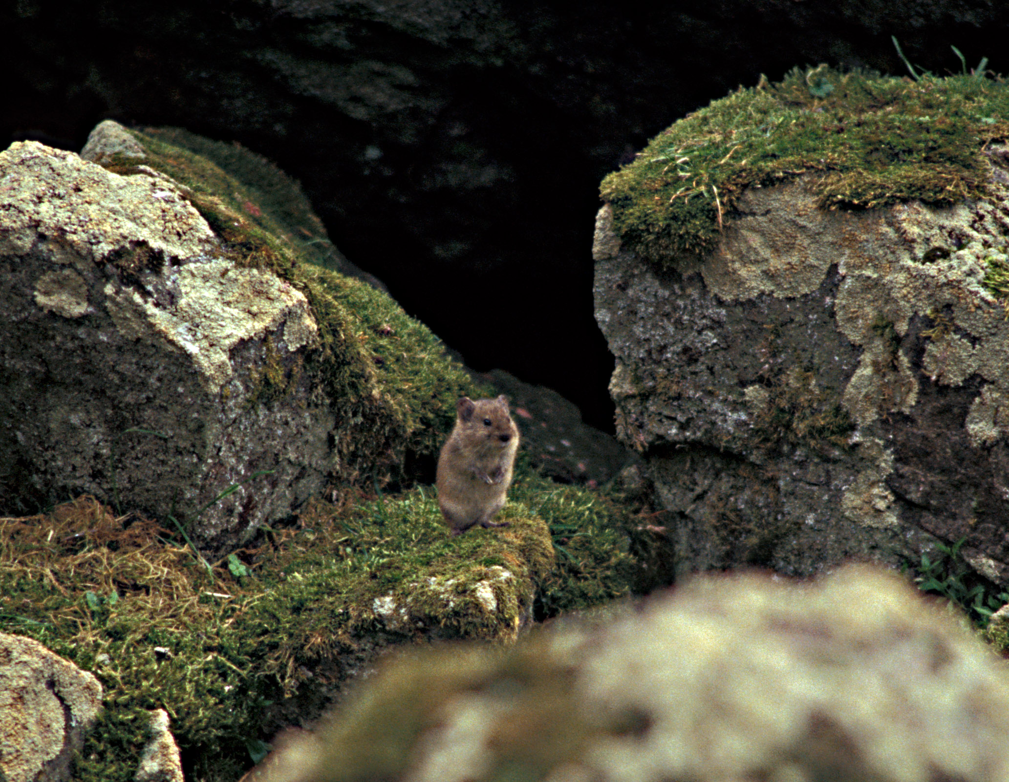 Singing Vole (Microtus miurus), Hall Island.